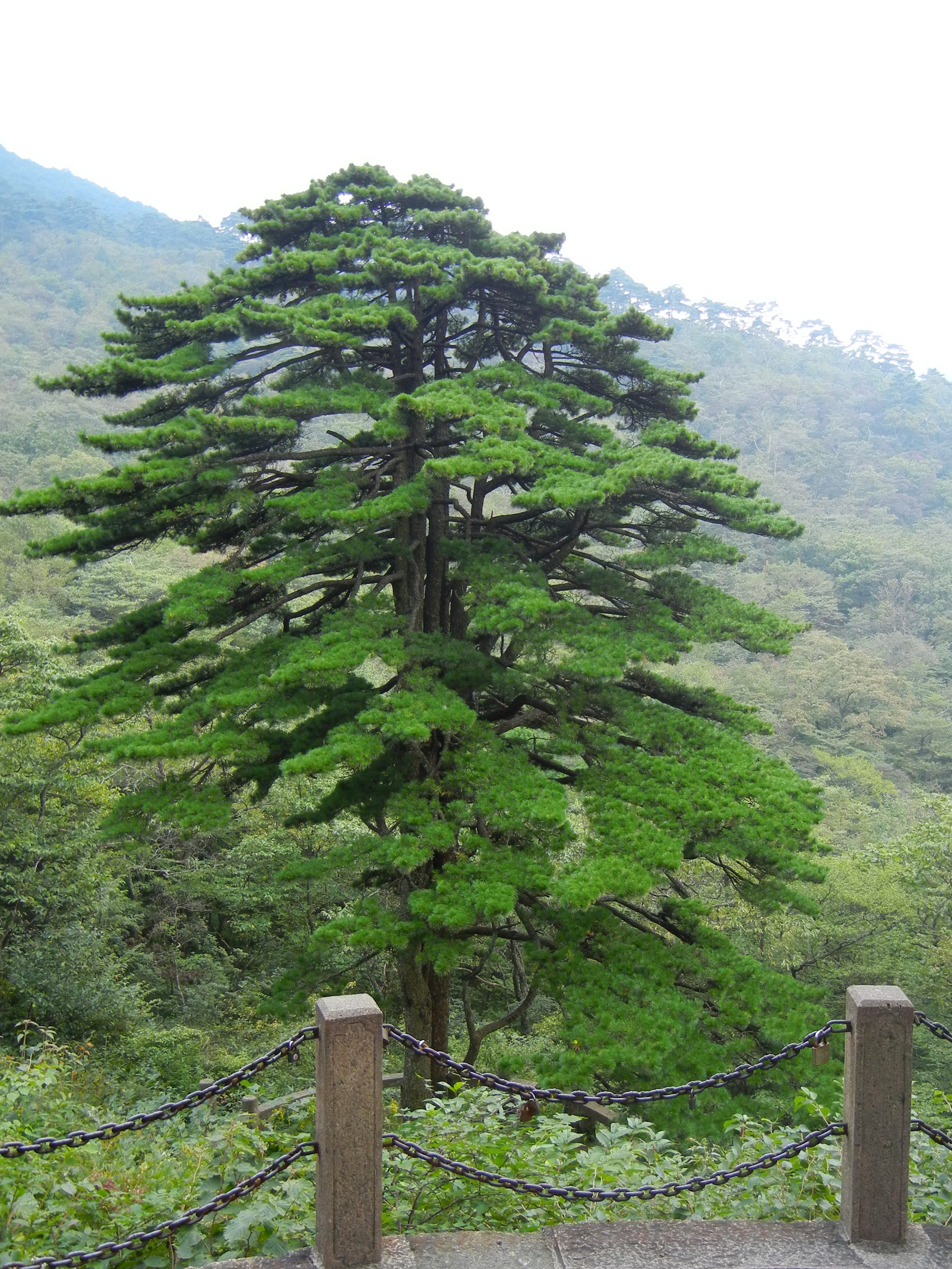 Pinus hwangshanensis, Huangshan, Anhui, China.